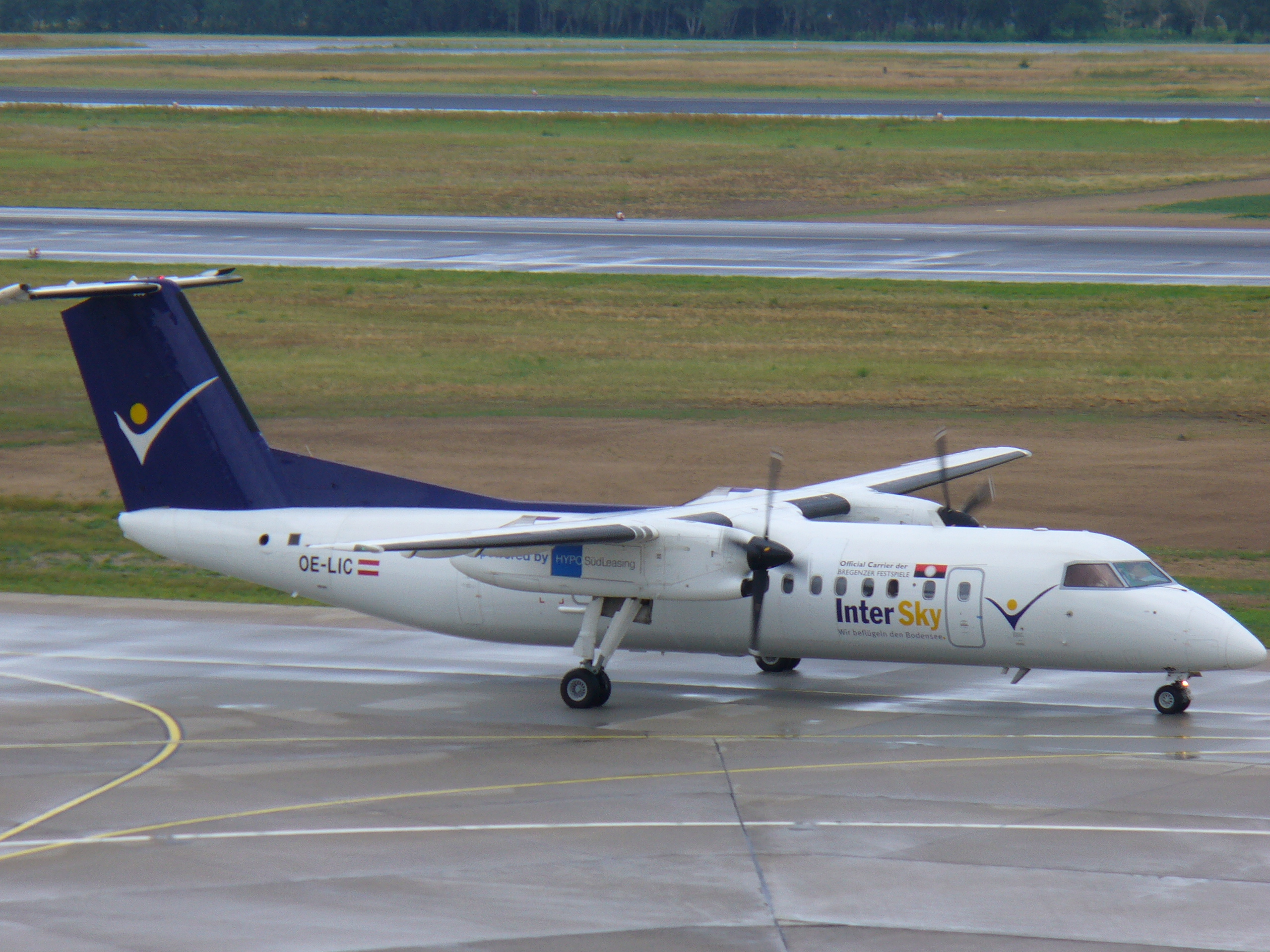 DHC Dash 8-300 of InterSky at Berlin Tegel Airport